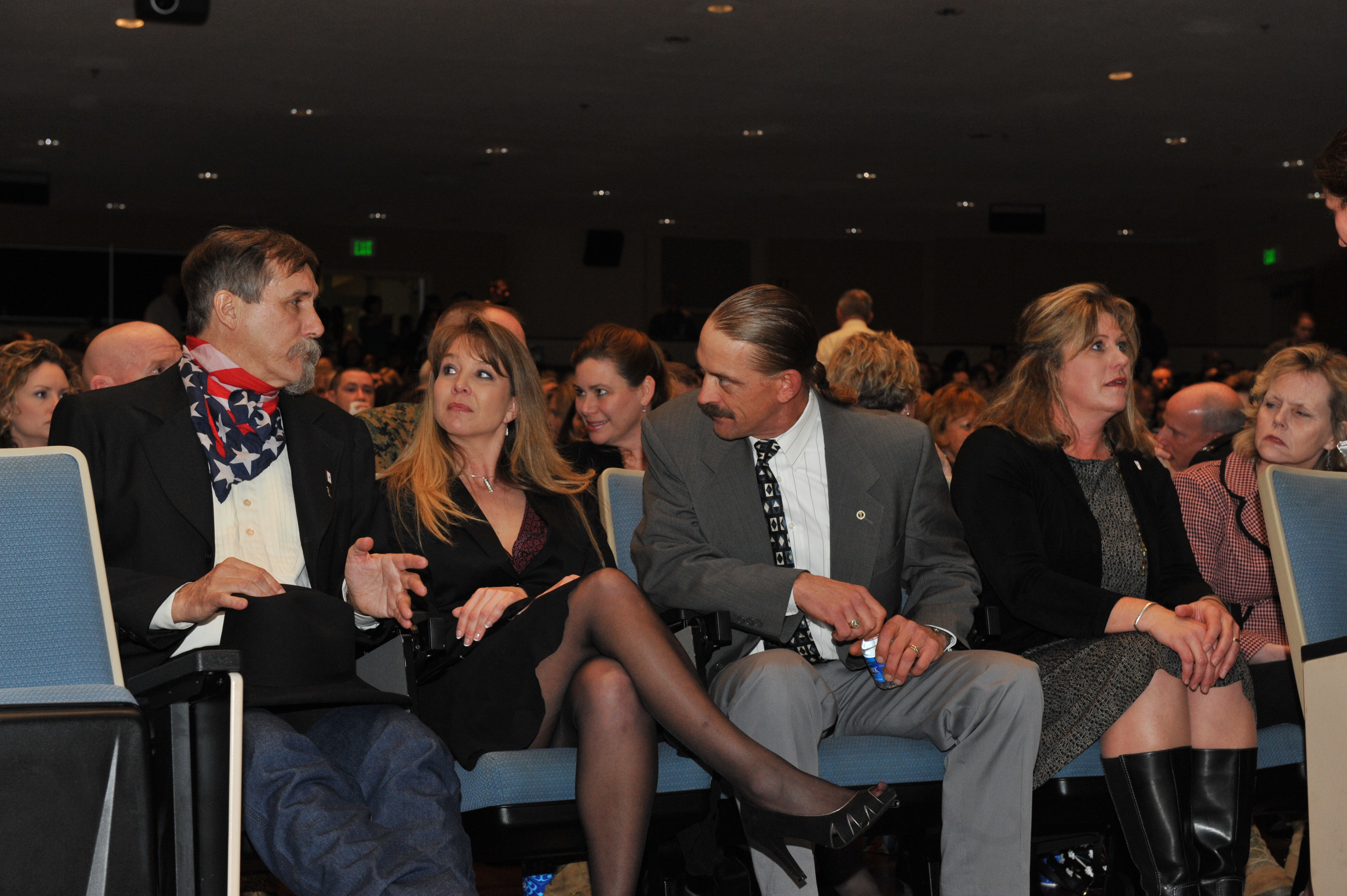 Family members of U.S. Marine Lance Cpl. Chance Phelps attend the Virginia premiere of HBO Films' Taking Chance at Little Hall Theater, Marine Corps Base Quantico on February 10, 2009. The film details the role of U.S. Marine Lt. Col. Michael Strobl, the officer who escorted the body of Marine Lance Cpl. Chance Phelps home to Dubois, Wyoming from Dover, Delaware.